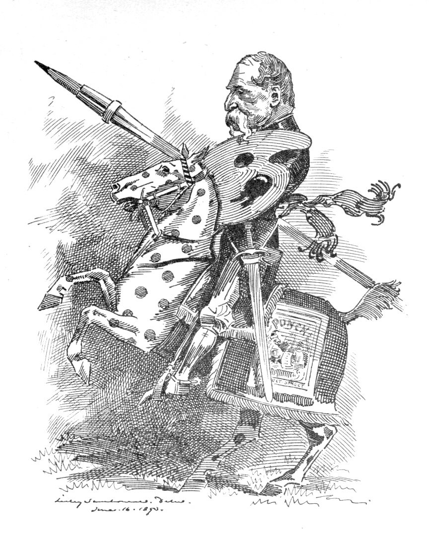 "The Black-and-White Knight" (Sir John Tenniel) by Linley Sambourne